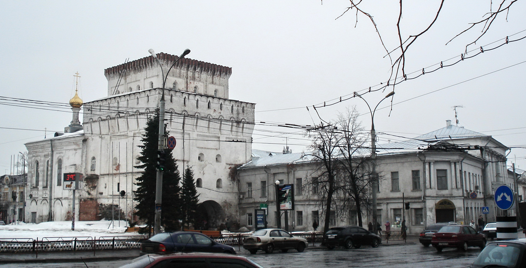 Yaroslavl State University, 6th corpus. Znamenskaya tower.